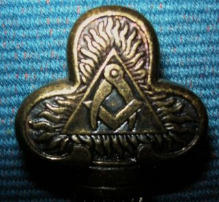 Compas and Square from Scottish Rectified Rite